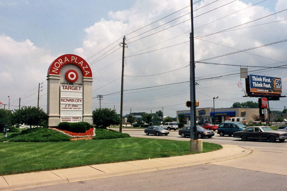 Nora Plaza Shopping Center, Indianapolis, USA